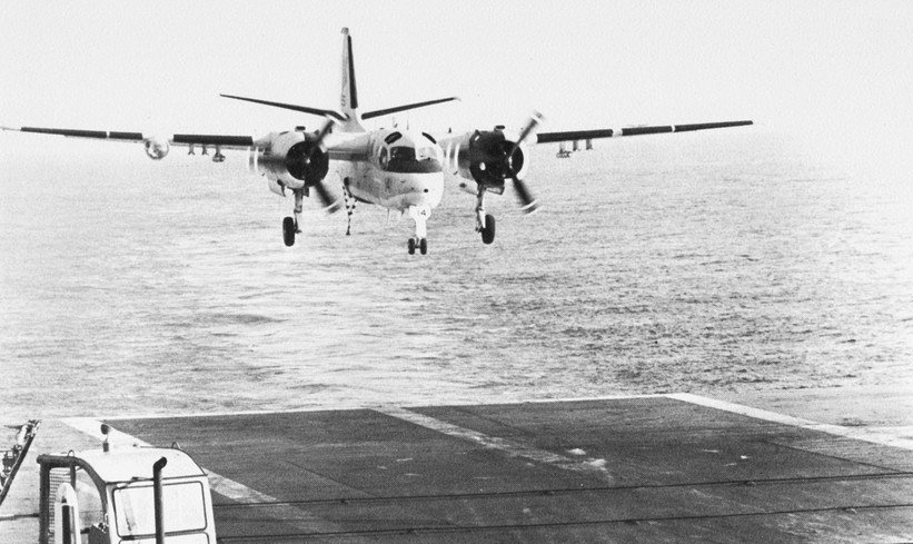 A U.S. Navy Grumman S-2D Tracker from Anti-Submarine Squadron 35 (VS-35) "Boomerangers" lands the aircraft carrier USS Hornet (CVS-12). VS-35 was assigned to Carrier Anti-Submarine Air Group 57 (CVSG-57) aboard the Hornet for a deployment to the Western Pacific and Vietnam from 12 August 1965 to 23 March 1966.